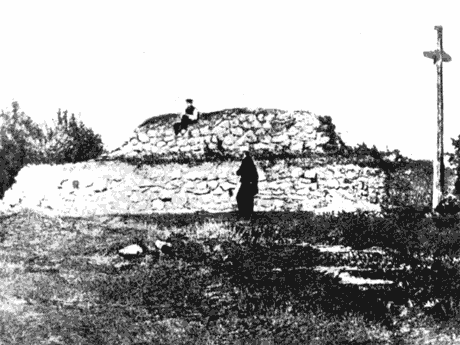 The initial appearance of the grave Shevchenko in Kaniv.